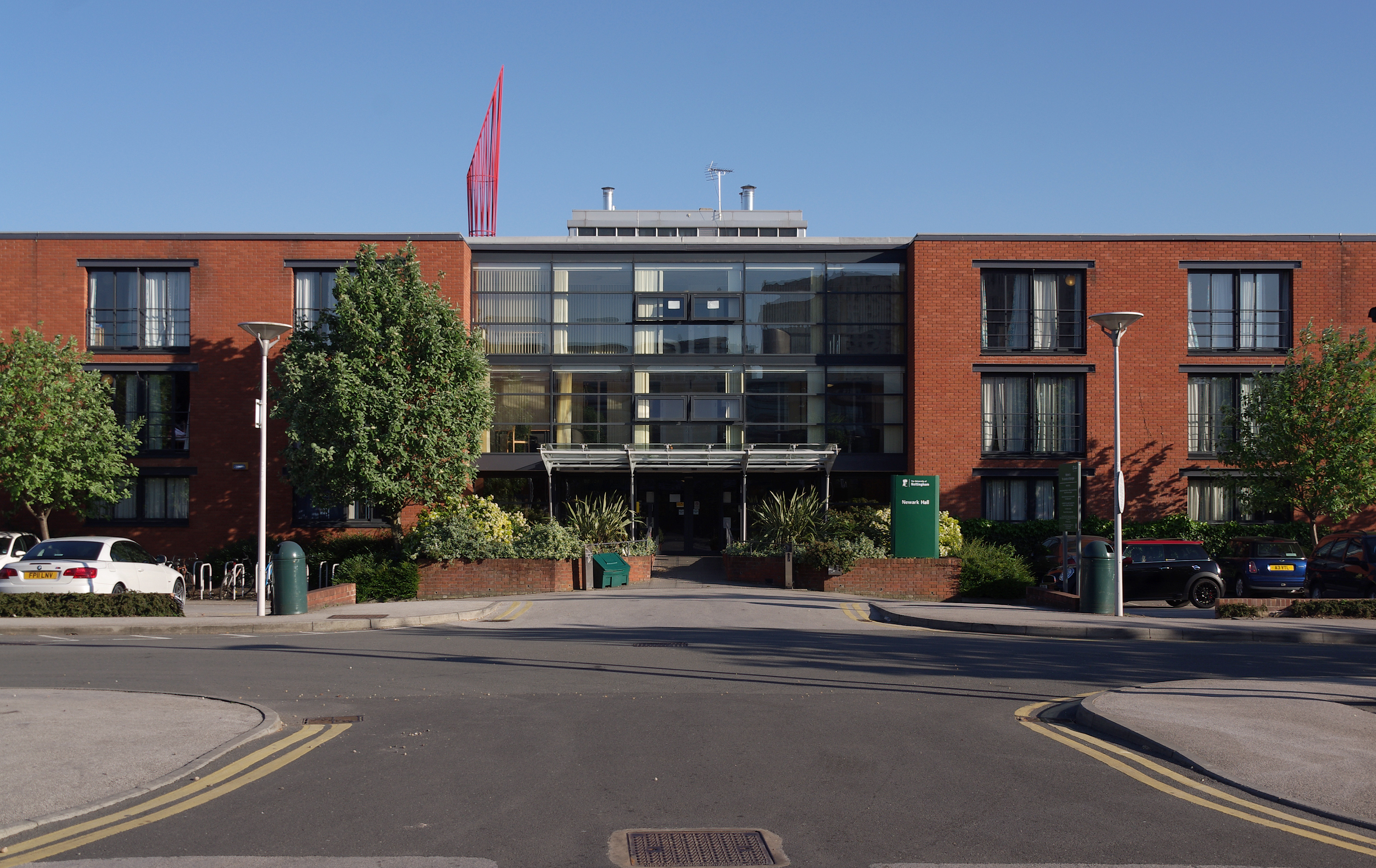 Newark Hall on Jubilee Campus, in some sunny weather.